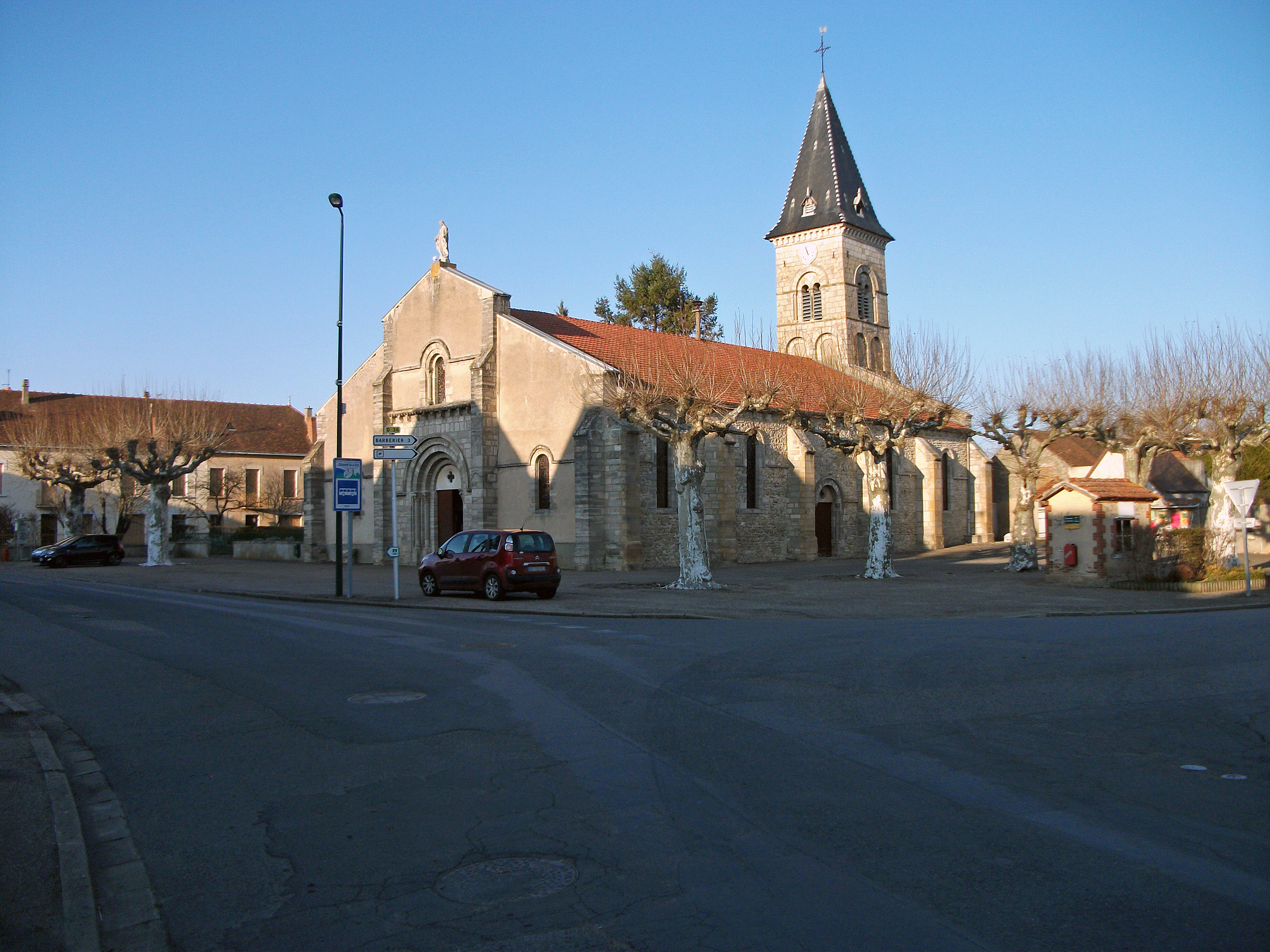 Intersection between departmental roads 35 and 36, and church in Étroussat, Allier [10508]